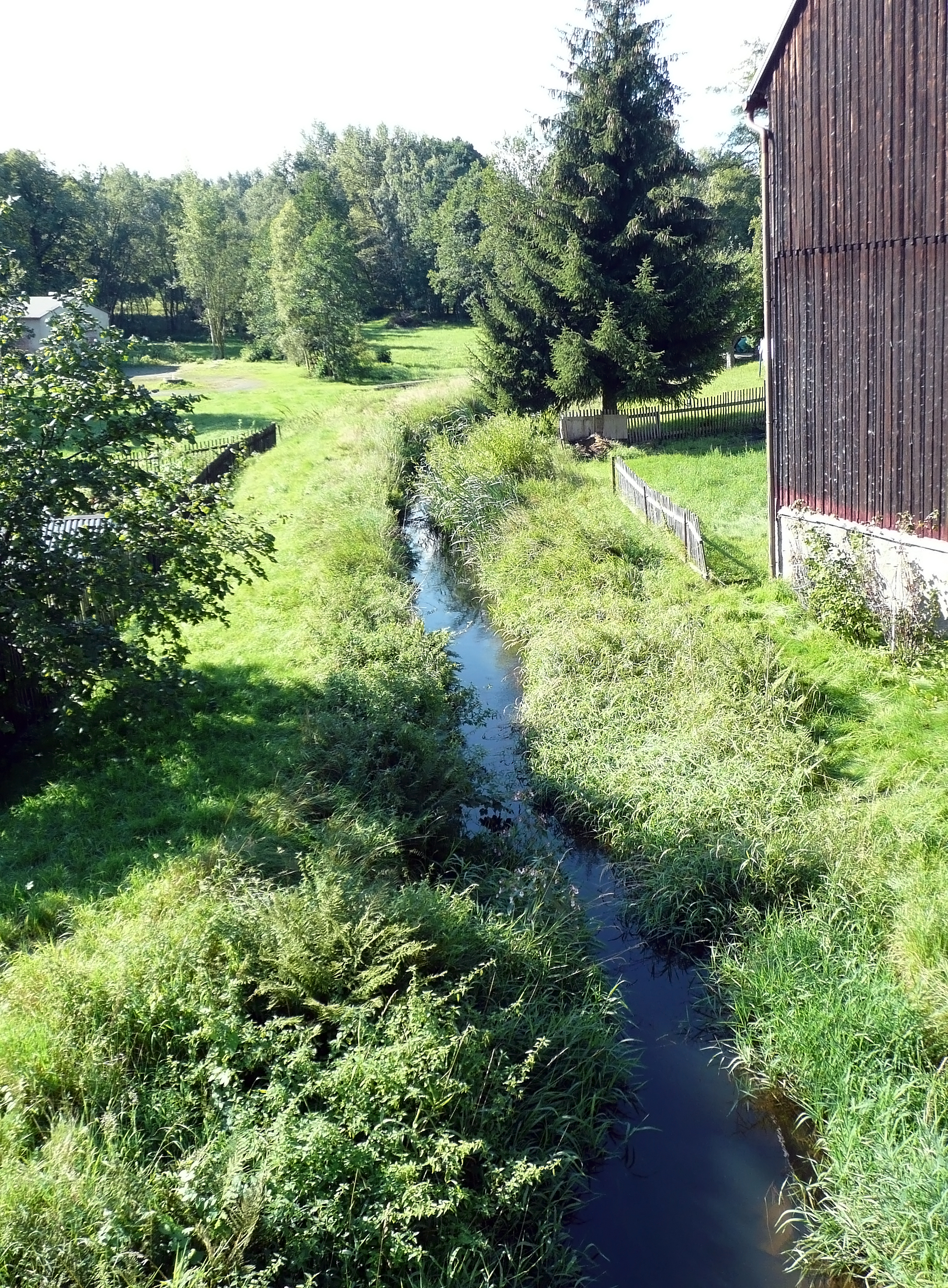 Churprinzer Bergwerkskanal in Großschirma, Erzgebirge